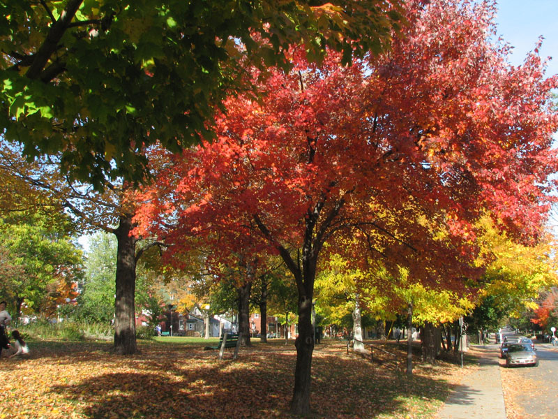 my pictures